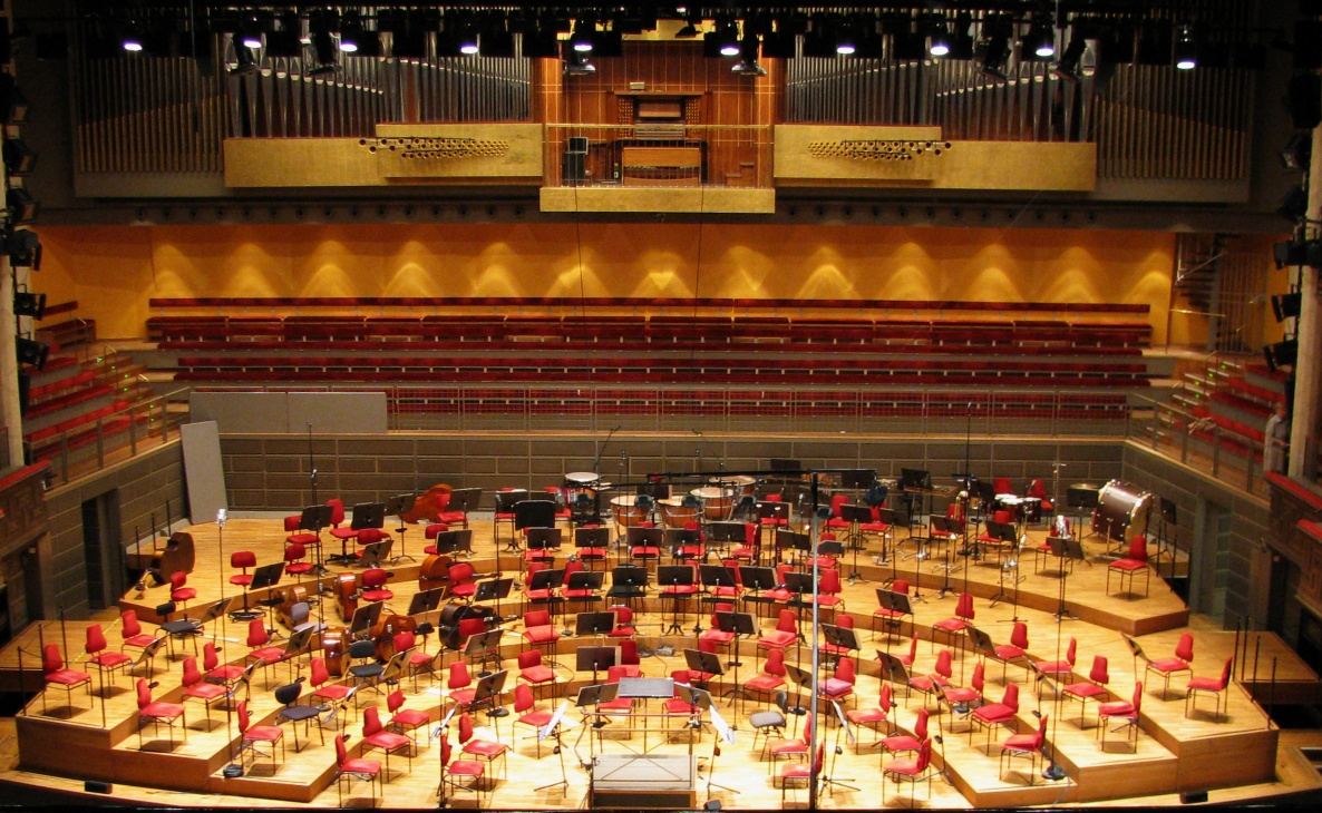 Inside Stockholm Concert Hall